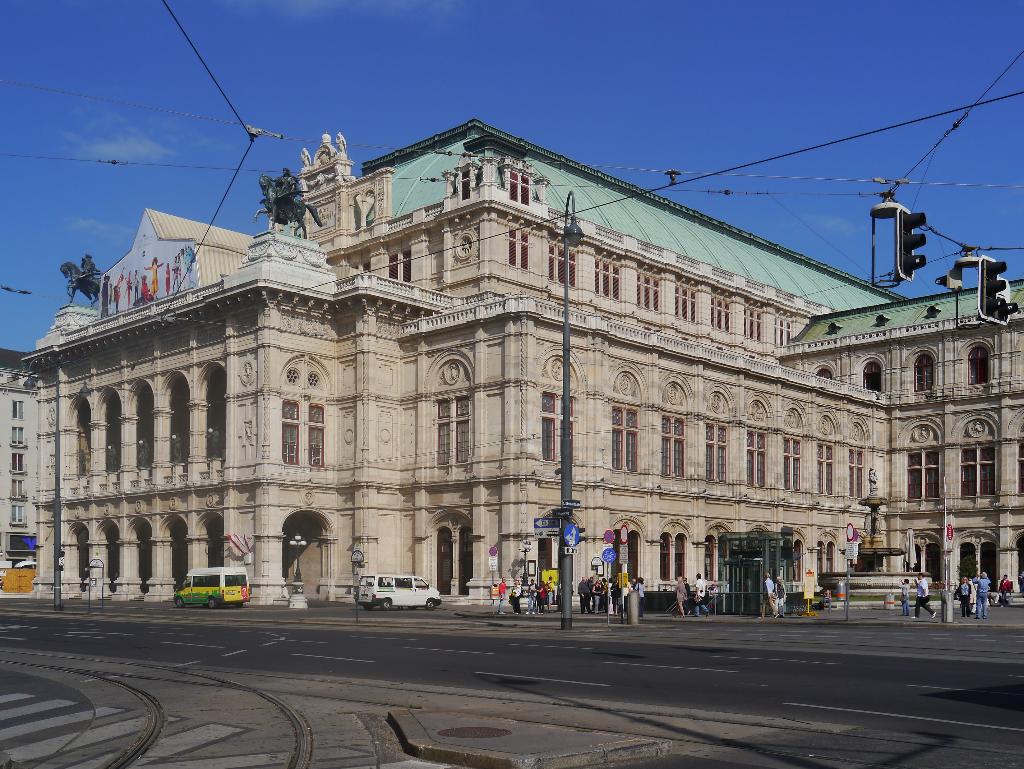 Austrian State Opera, Vienna